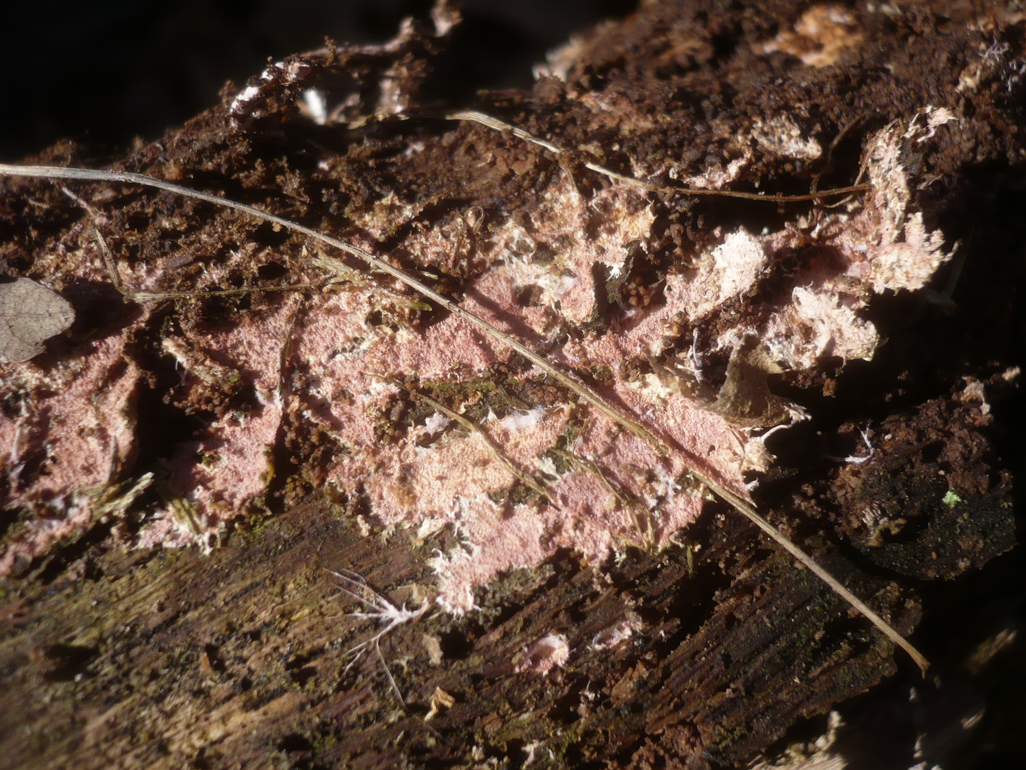 Steccherinum fimbriatum (Pers.) J. Erikss. Image location: Weiden bei Rechnitz, Bezirk Oberwart, Burgenland, Austria Recognized by sight: on Quercus cerris. For more information about this, see the observation page at Mushroom Observer.